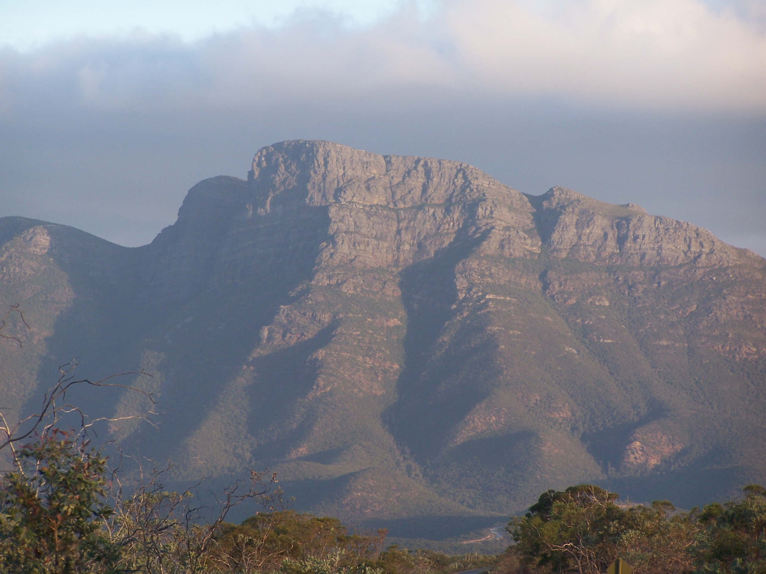 Bluff Knoll, taken about 20 minutes prior to sunset to get maximum light on the face of Bluff Knoll